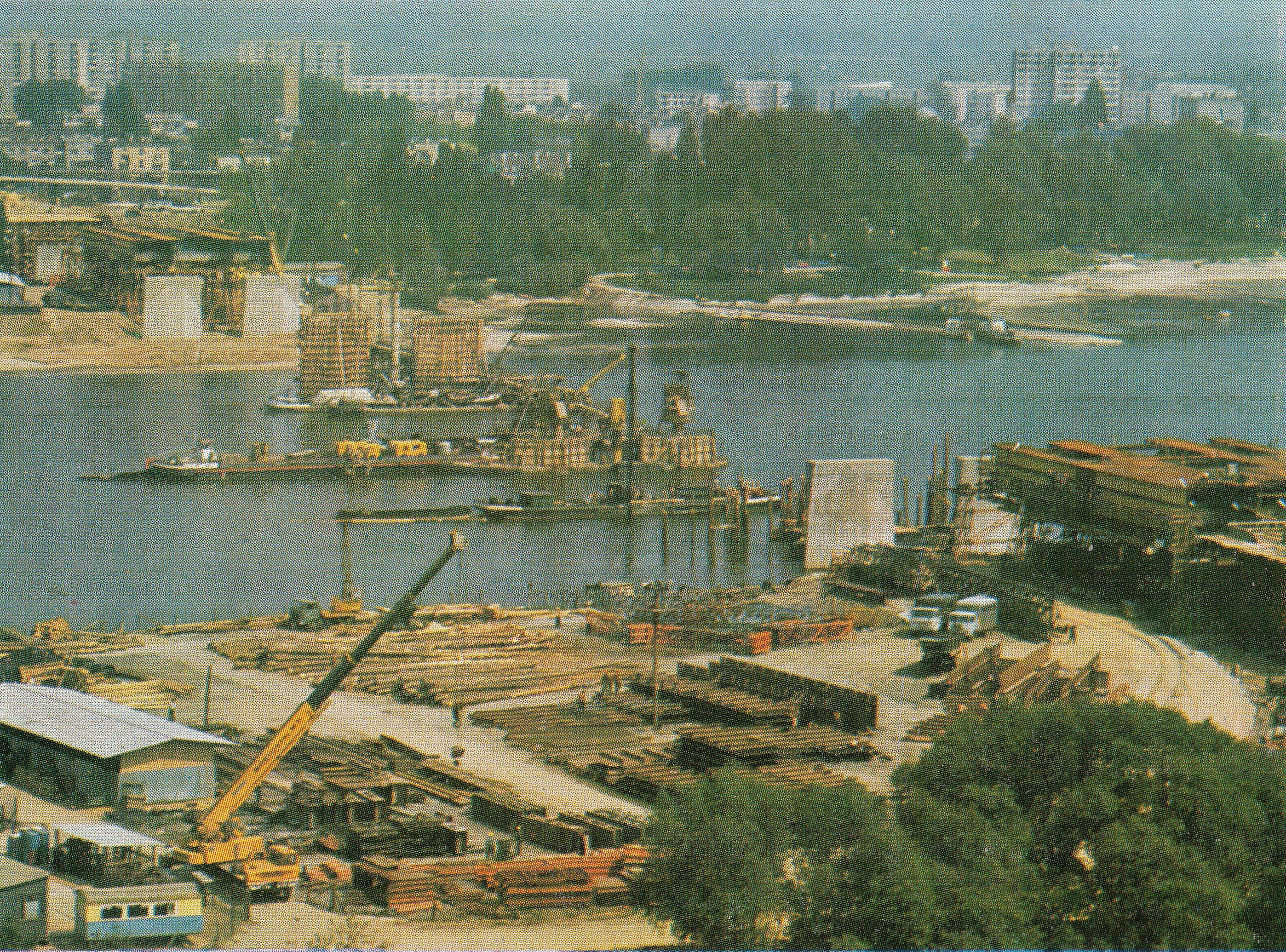 Construction of Łazienkowski Bridge